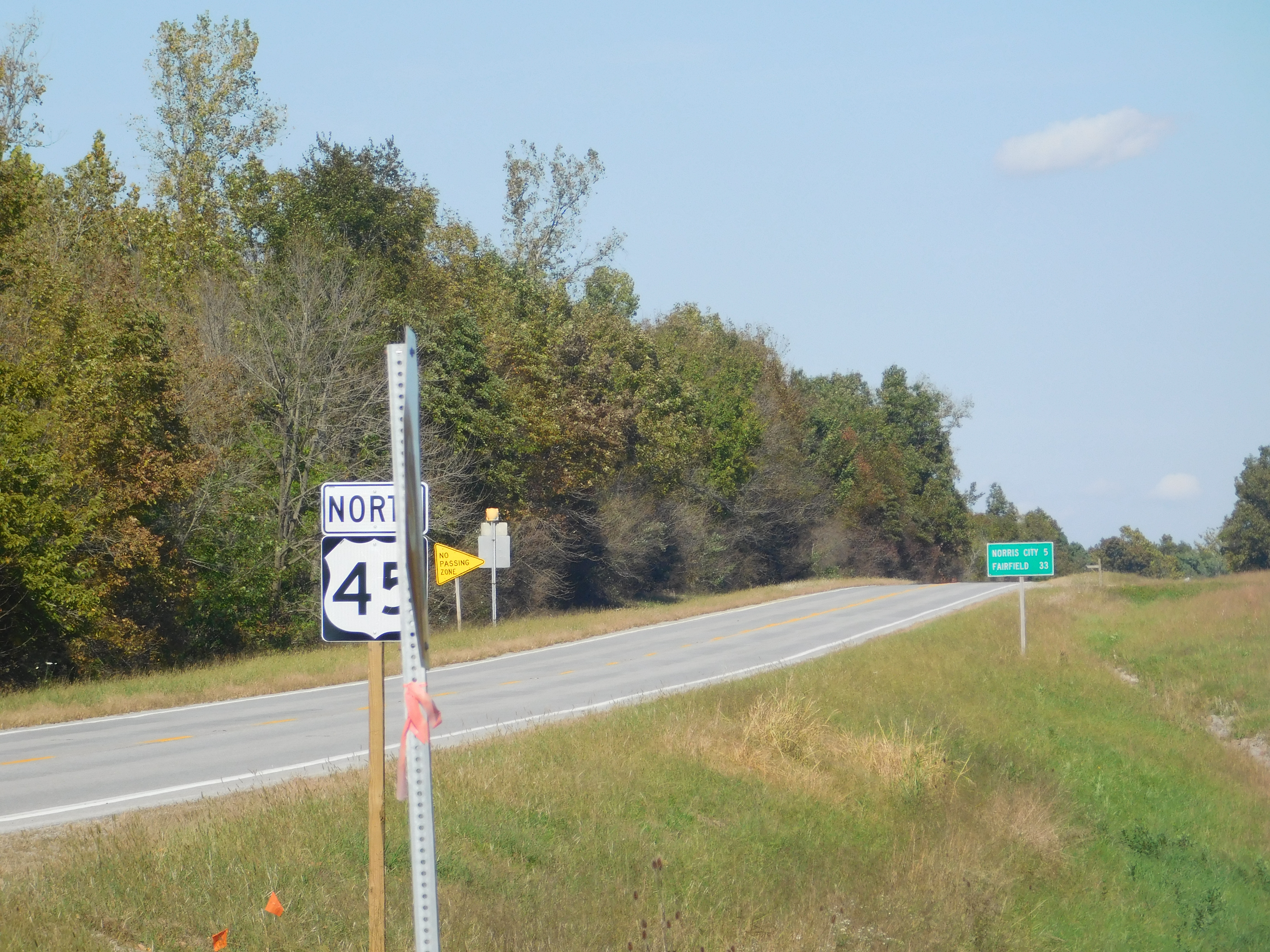 U.S. Route 45 in Gallatin County, Illinois.